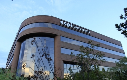 ECPI University building